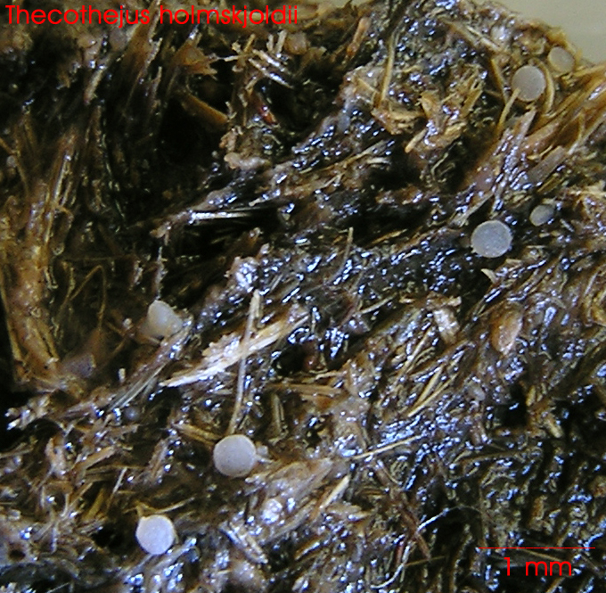 Thecotheus holmskioldii (E.C. Hansen) Eckblad Image location: Jena, Thüringen, Germany Growing on horse dung. Found already in nature, not in moist chamber culture Based on microscopic features For more information about this, see the observation page at Mushroom Observer.